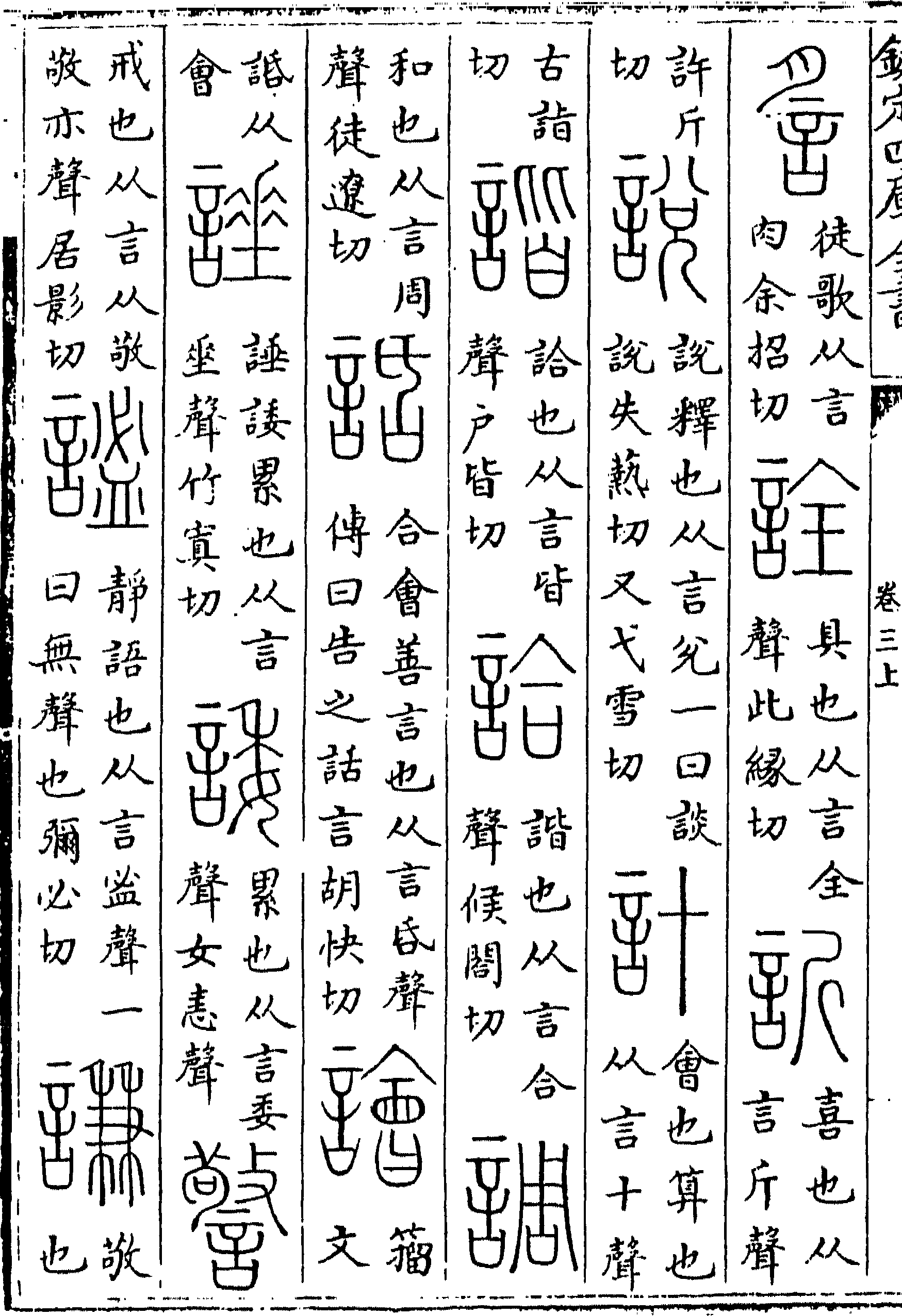 Page from chapter 3 of the Shuowen Jiezi, an ancient Chinese character dictionary, including a description of the character 說 shuō. Original text: 說釋也。从言。兑聲。"shuō means 'explain', from 言 with 兑 duì giving sound." (Norman 1988:69) The Song dynasty scholar Xu Xuan excised the 聲 marker (as the sounds no longer matched in his time) and added fanqie pronunciations (Boltz 1993:436). Boltz, William G. (1993), "Shuo wen chieh tzu", in Loewe, Michael (ed.), Early Chinese Texts: A Bibliographical Guide, Berkeley: Society for the Study of Early China, pp. 429–442, ISBN 978-1-55729-043-4. Norman, Jerry (1988), Chinese, Cambridge: Cambridge University Press, ISBN 978-0-521-29653-3.